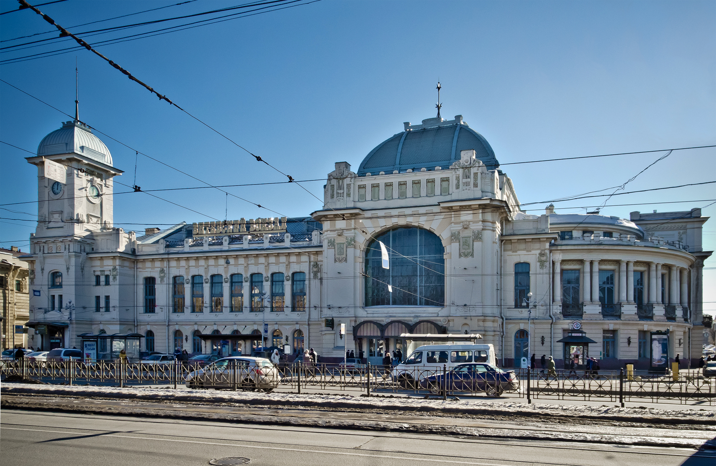 Vitebsky Railway Terminal in Saint Petersburg